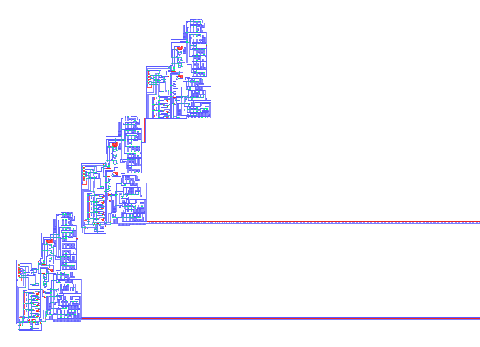 The Nobili-Pesavento self-replicator, with a daughter copy in the process of making a grand-daughter copy. The automaton uses the 32-state extended John von Neumann rules, based on his work on universal constructors and self-reproducing automata.